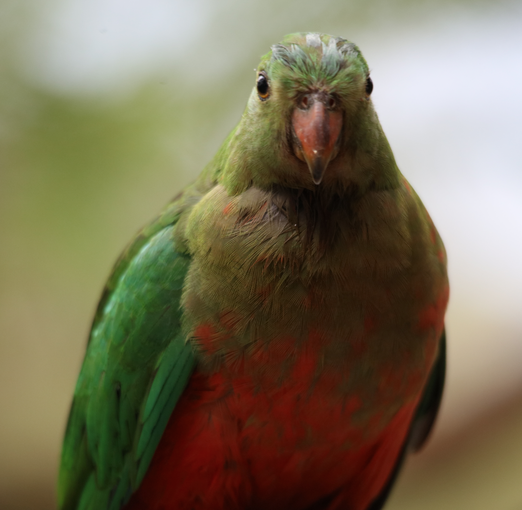 Australian King Parrot (Alisterus scapularis). Female. Shot with Canon 5DS + Sigma 150-500mm lens.